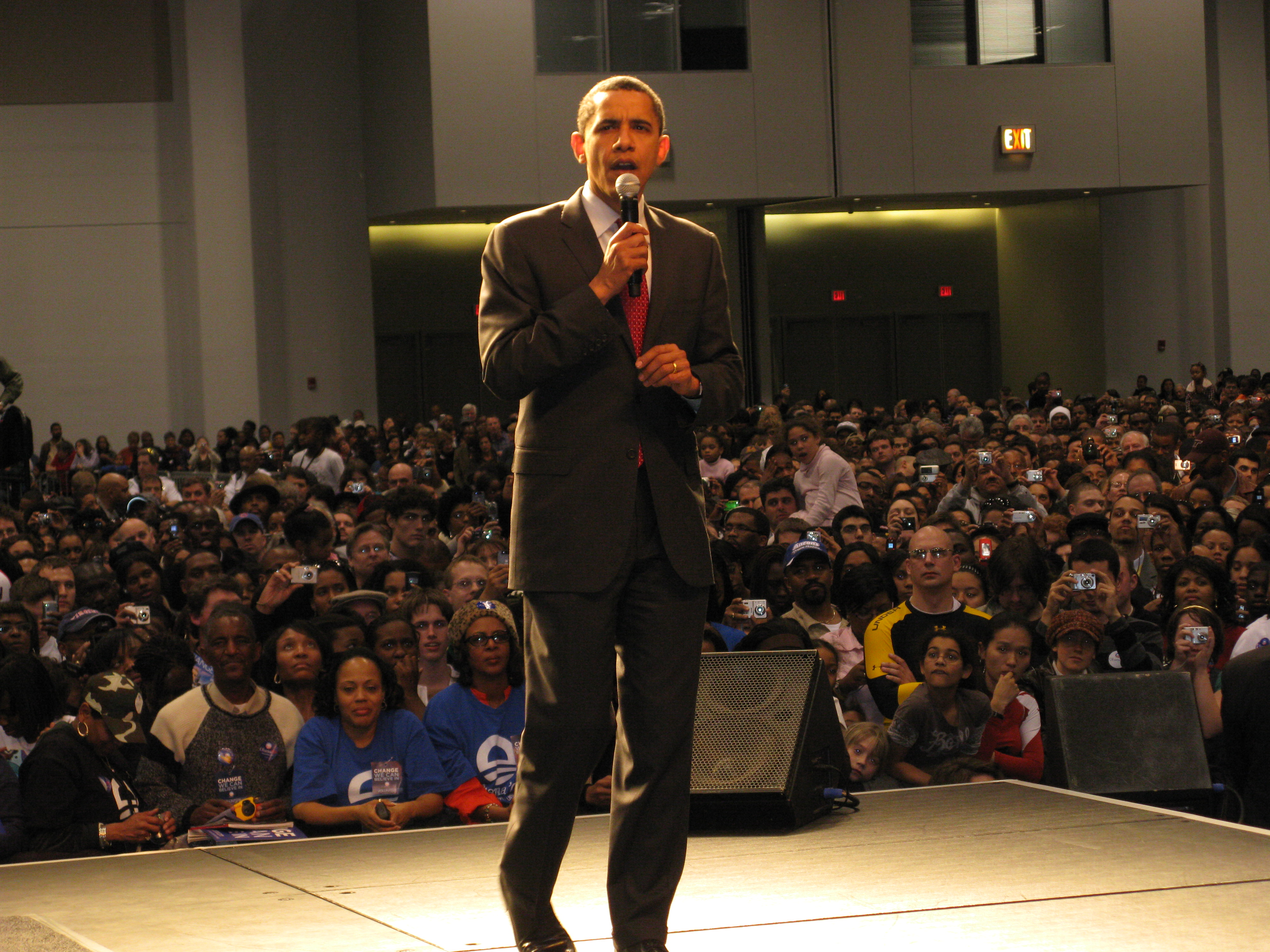 Barack Obama addressing a crowd at the Virginia Beach Convention Center.